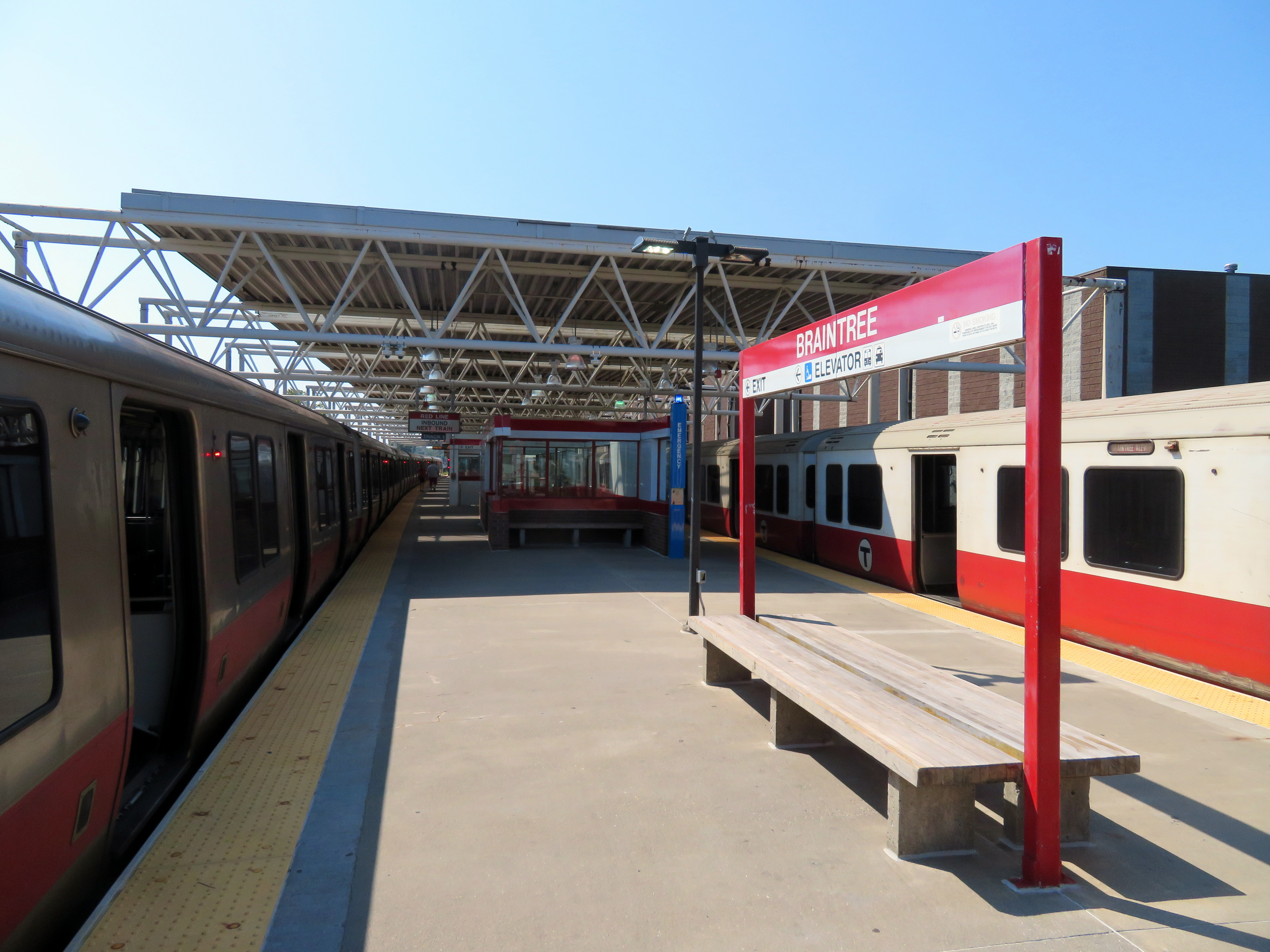 Red Line trains at Braintree station in August 2018